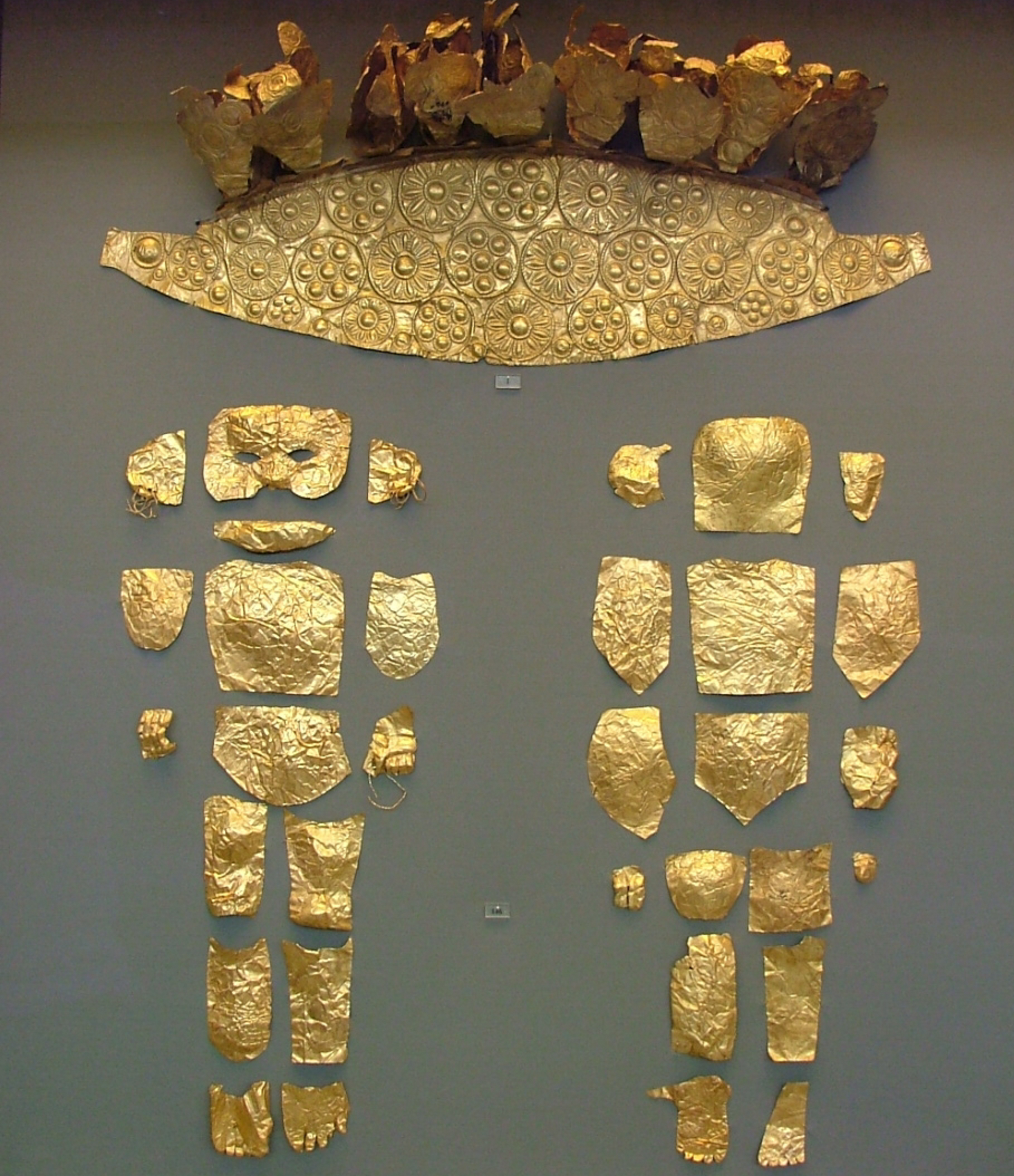 An impressive gold diadem with repoussé rosettes and thin sheets applied at the top. Grave Circle A, Mycenae,16th century BC. A unique gold covering for the body and the face of an infant, consisting of pieces of gold foil. A distinctive detail are the ring-shaped earrings. The second similar cover is simpler. Grave Circle A, Mycenae,16th century BC.